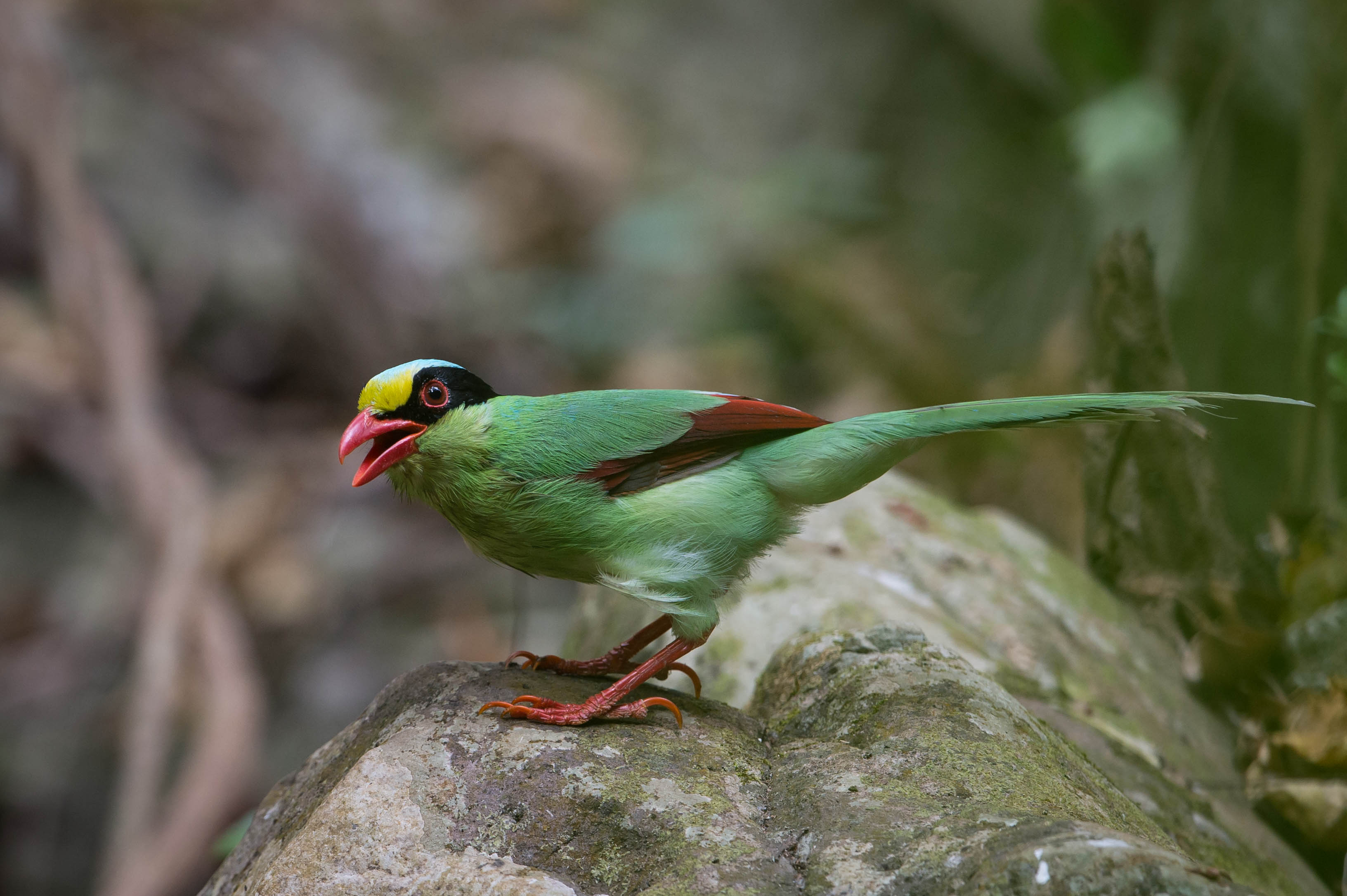 Common Green Magpie (Cissa chinensis) at Kaeng Krachan National Park, Thailand